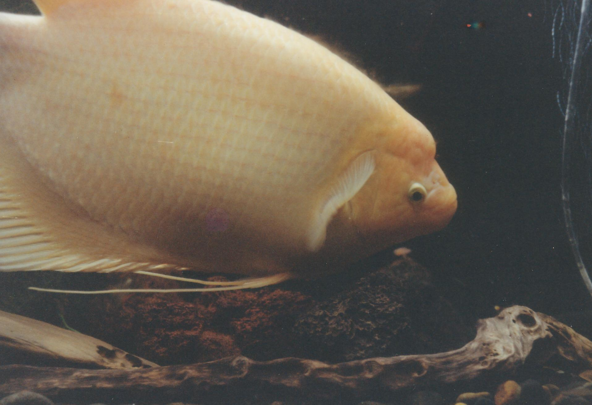 A not quite fully grown Golden Giant Gourami '(Osphronemus goramy)'. Note that the lips are still slightly pronounced and the forehead hump is not yet fully developed. This specimen was commercially bred and reared in a home aquarium. It is about 3 years old and was raised mostly on a diet of frozen peas and assorted seasonal vegetables. This particular fish was named "Gorby" as it had an aberrant red scale on its forehead. It also was, (typically of its species and most other fish) a glutton, so was also referred to as "Gorby-troff". L-Bit 05:18, 3 July 2006 (UTC)